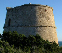 Defense tower of Pi des Català, Formentera Island, Spain